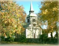 St Casimir church in Lubieszewo, West Pomeranian Voivodeship, Poland, 2005